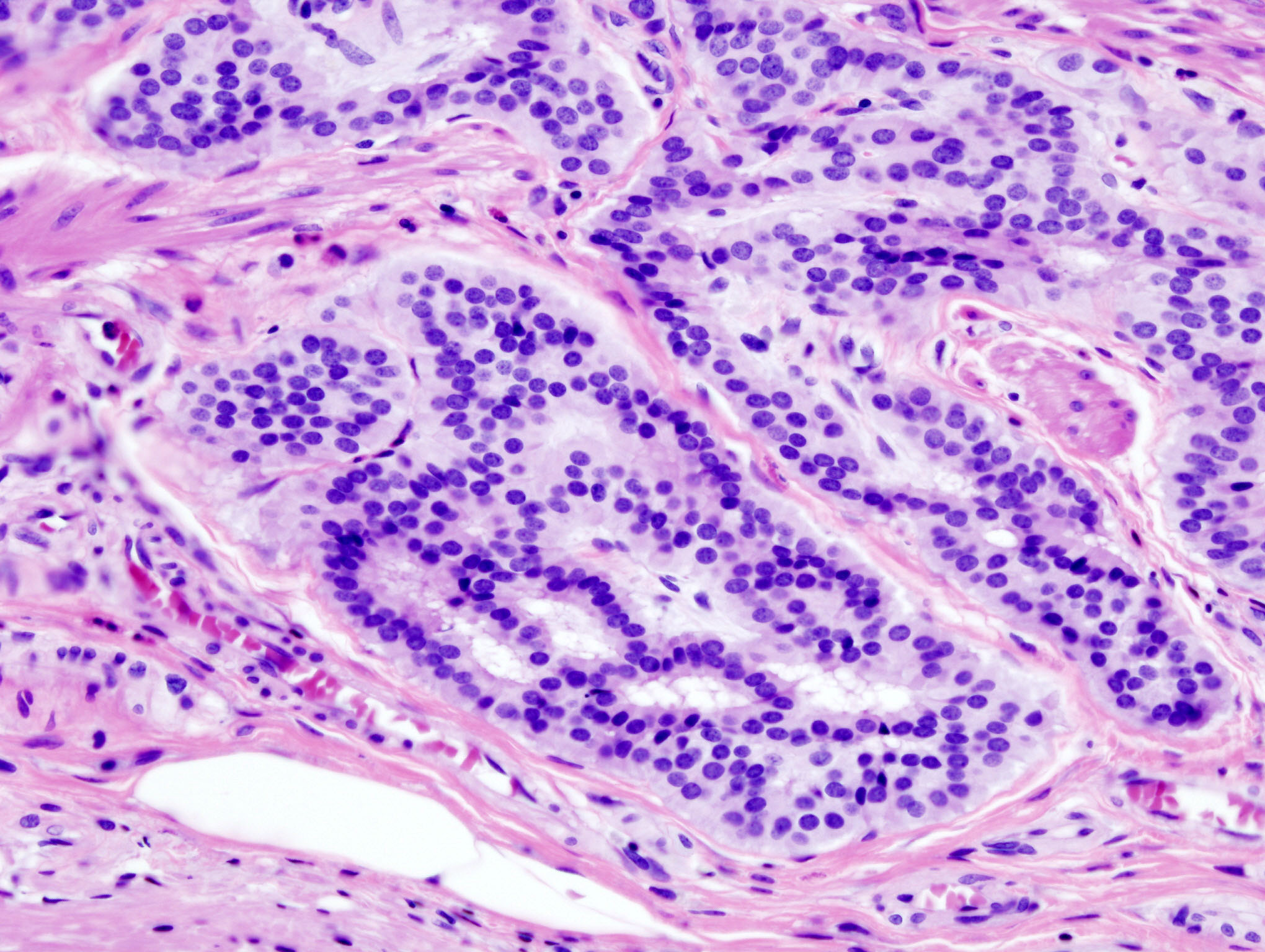 Histopathologic image of colonic carcinoid stained by hematoxylin and eosin. Other version: Colonic_carcinoid_(2)_Endoscopic_resection.jpg